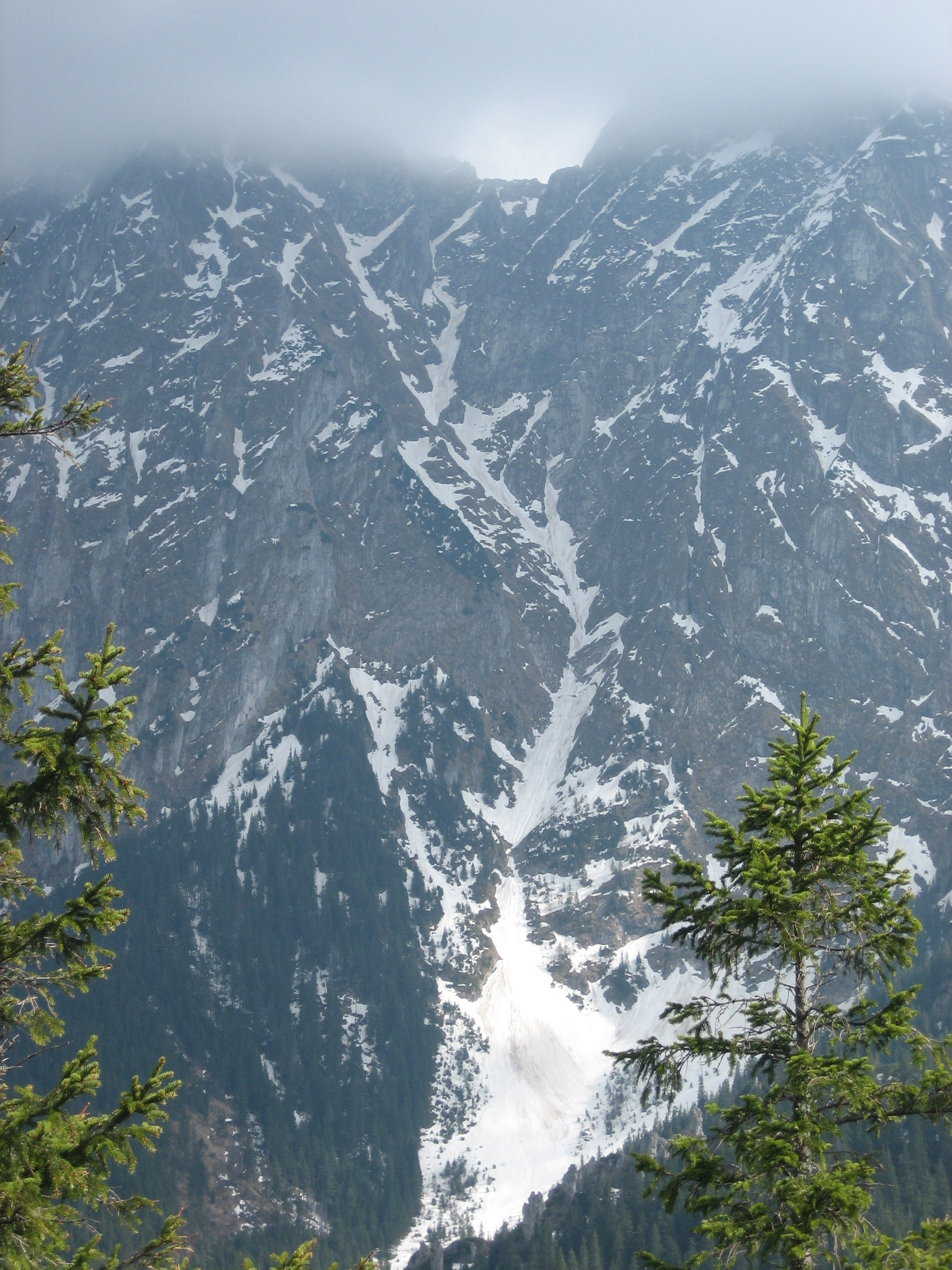 Szczerba culuoir in Tatras